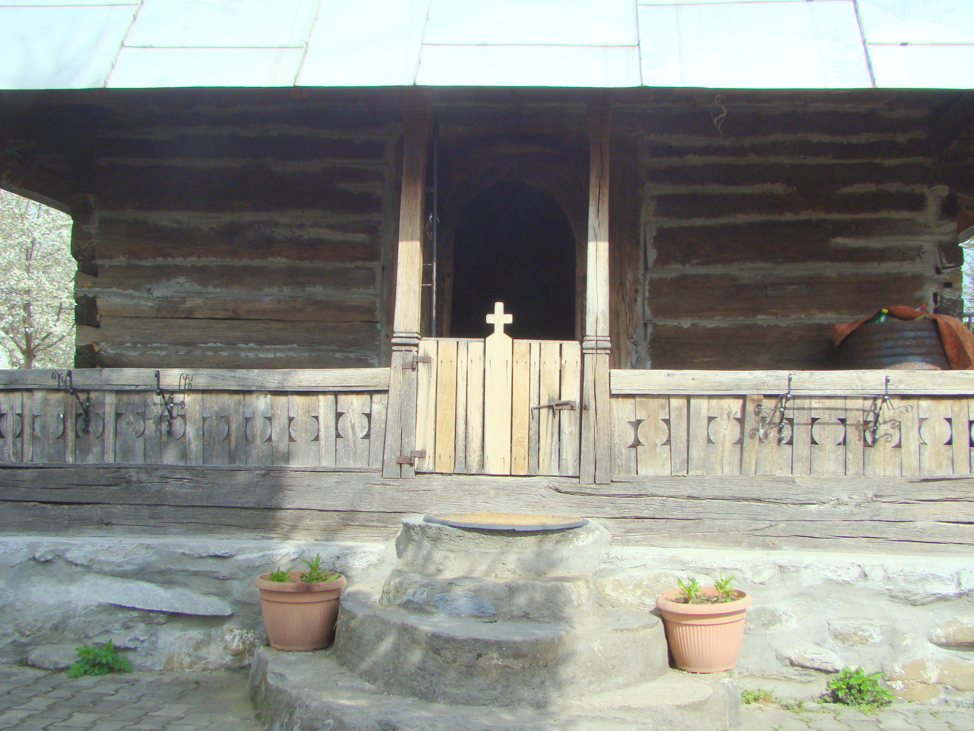 Saint George's church in Rugi, Gorj county, Romania